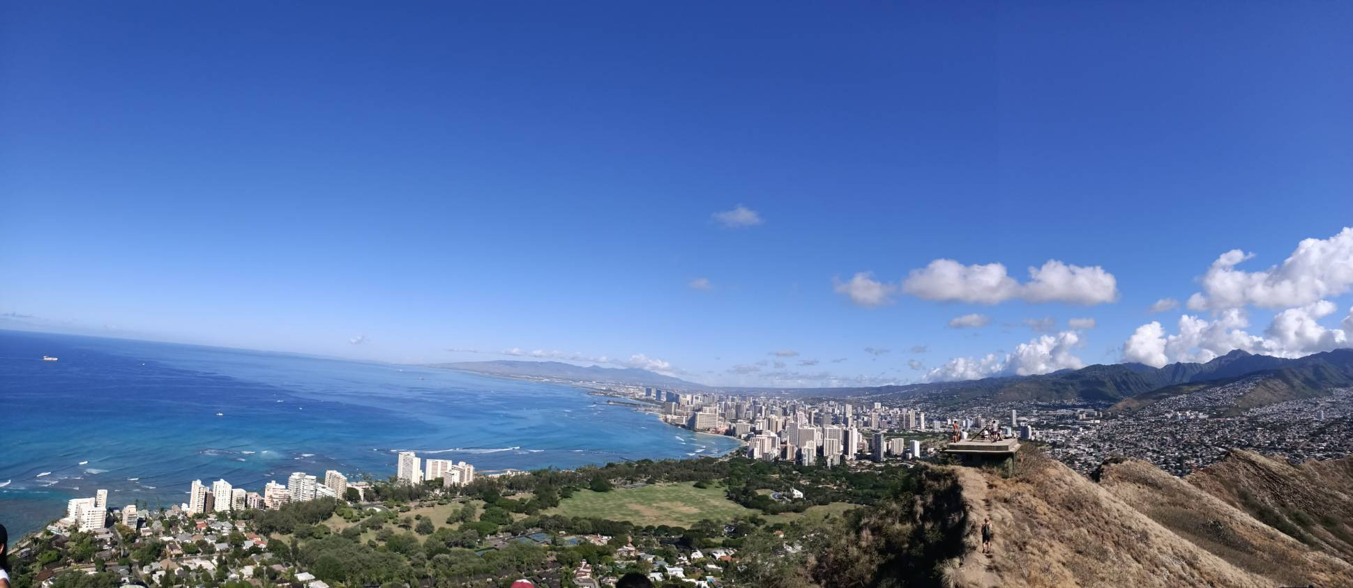 Oahu island2019(1)